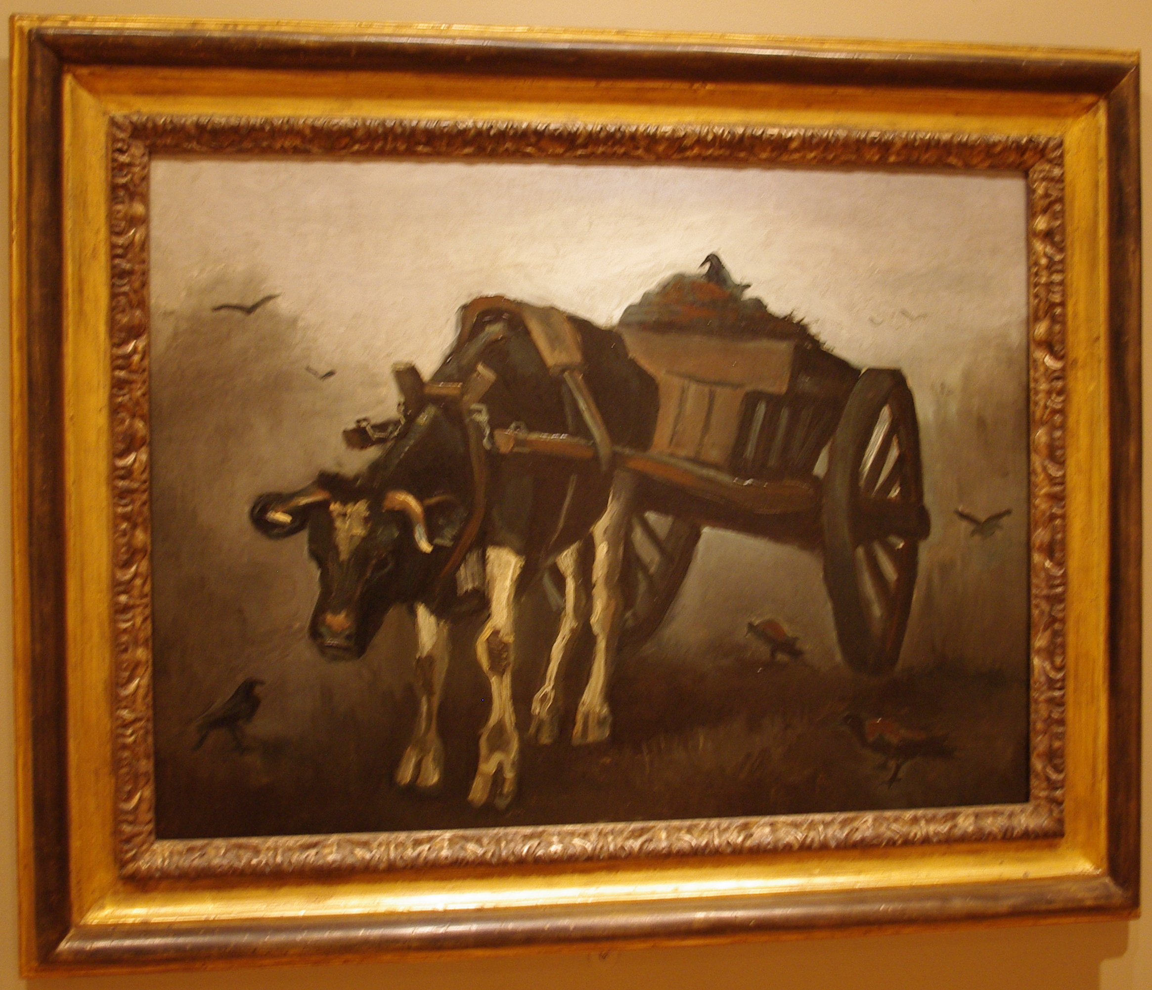 The Ox Cart by Vincent van Gogh on display at the Portland Art Museum in Oregon.